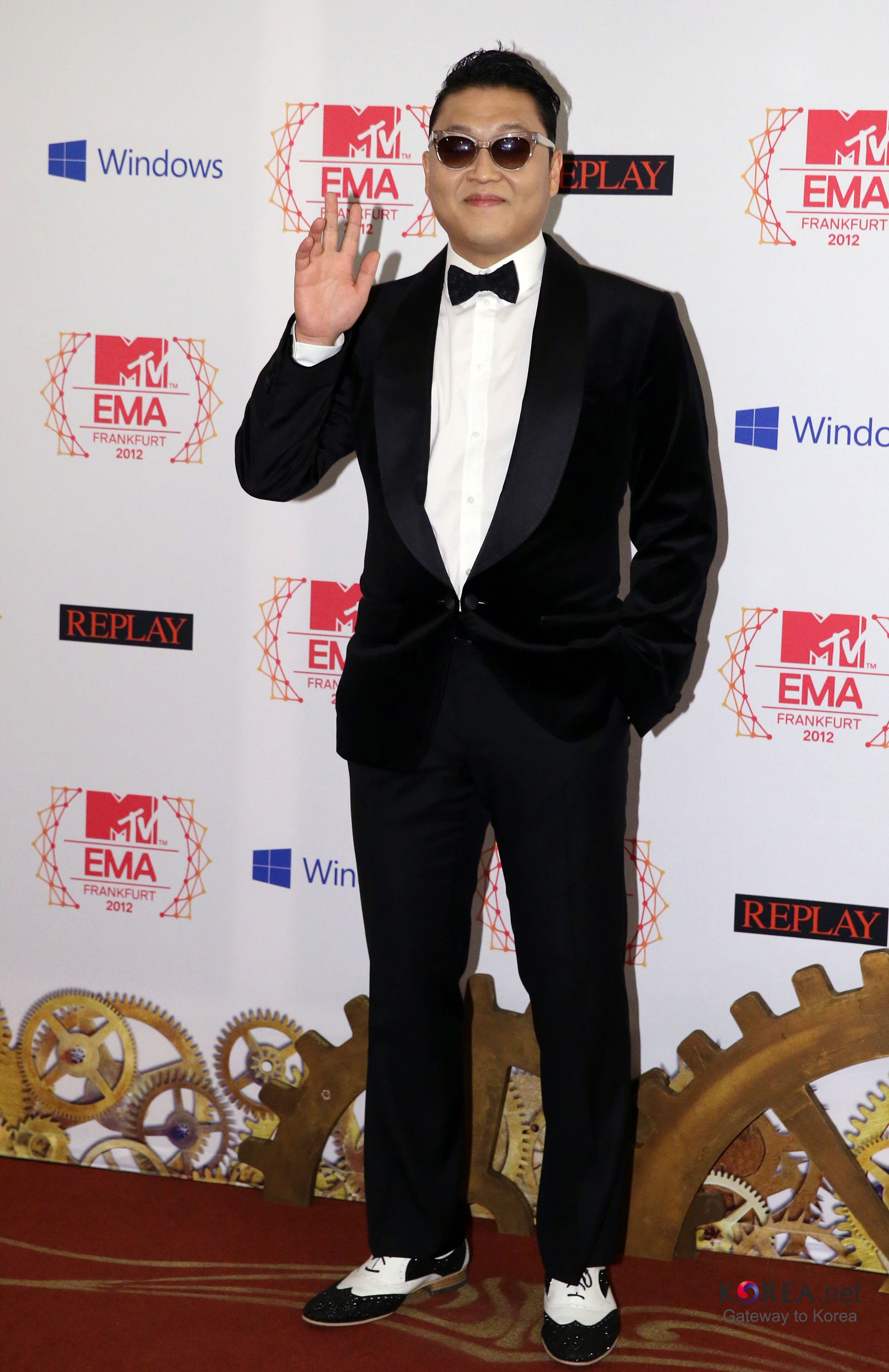 2012 EMTV Award. PSY won 'Best Music Video' Award by 'Gangnam Style'. Frankfurt, Germany